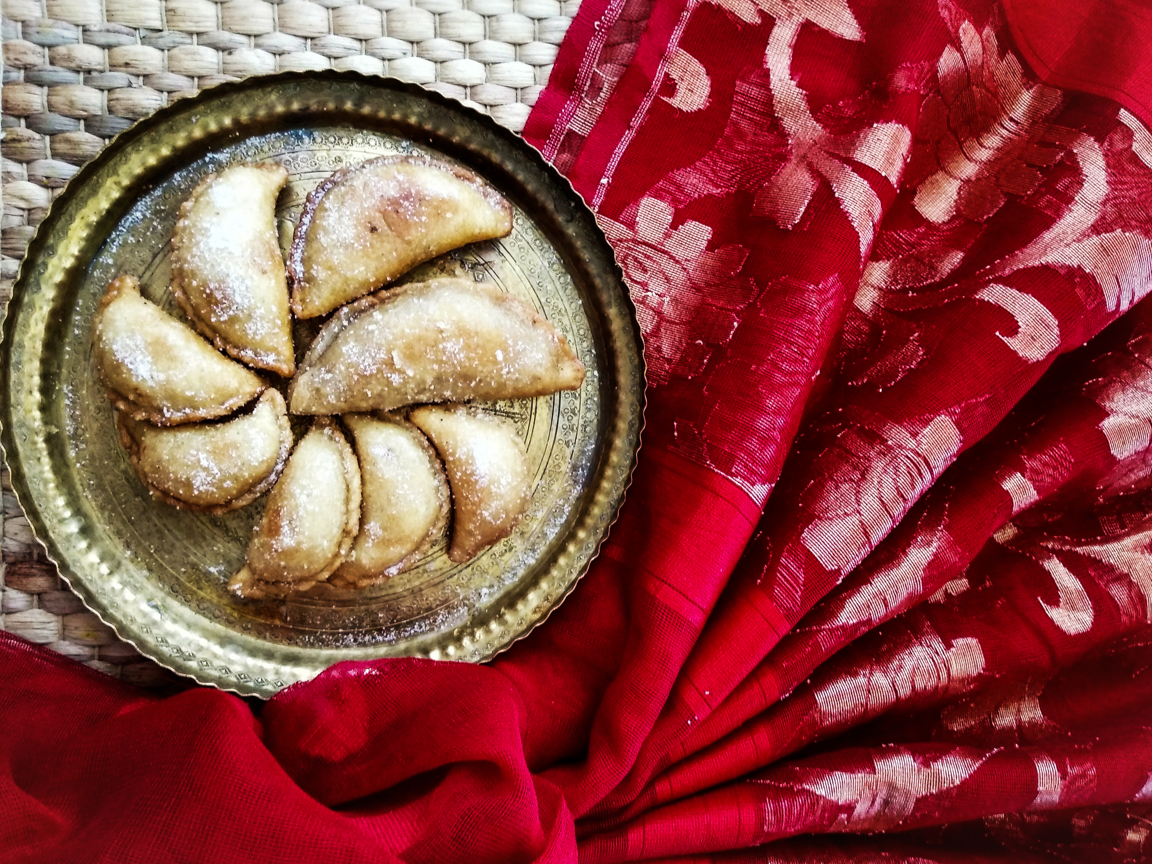 Peraki or purukia or Karanji or Karjikai or Somas or Gujia is a traditional Indian sweet